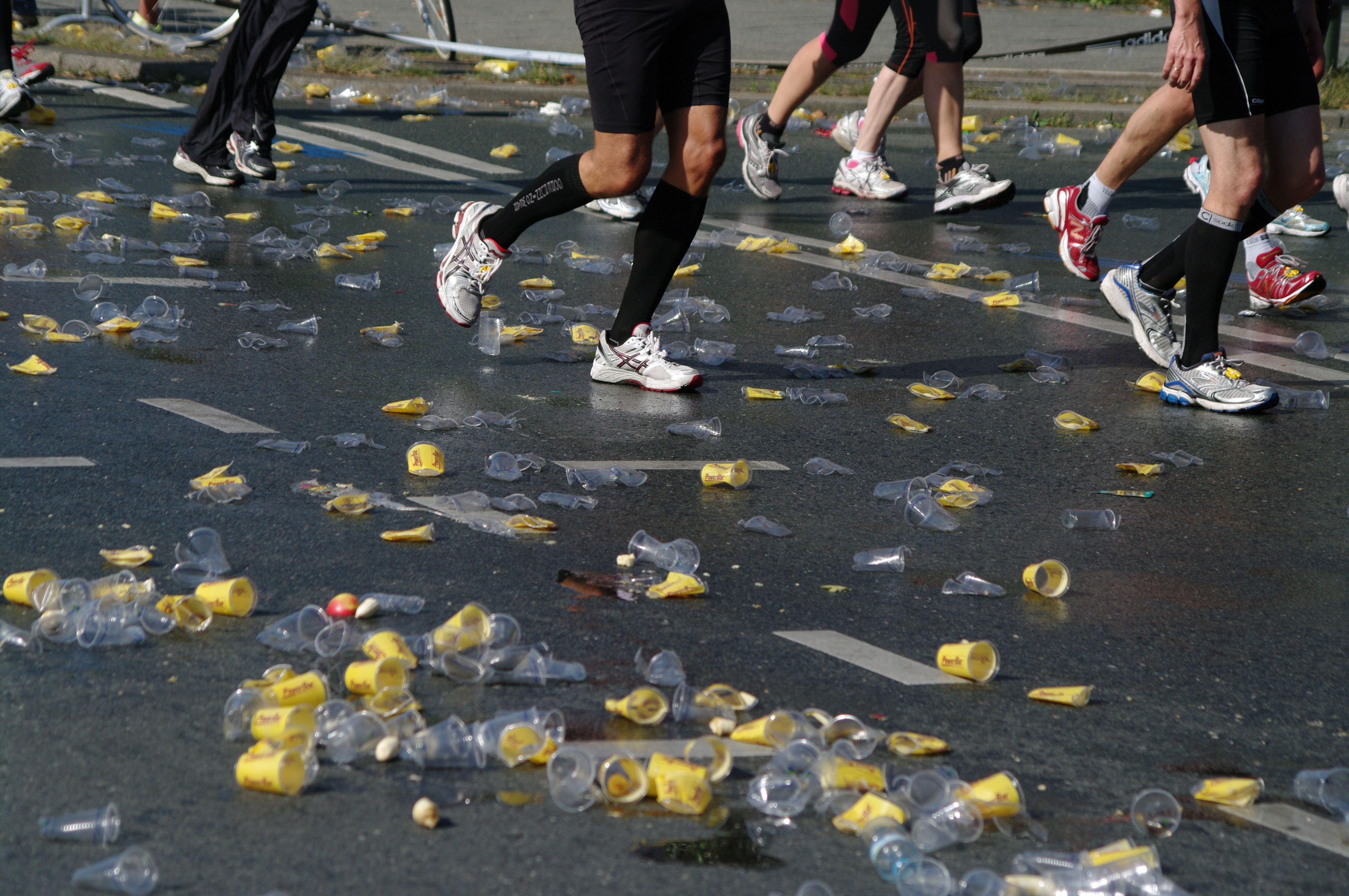 Berlin Marathon 2011. Disposed plastic cups on Kleistraße.